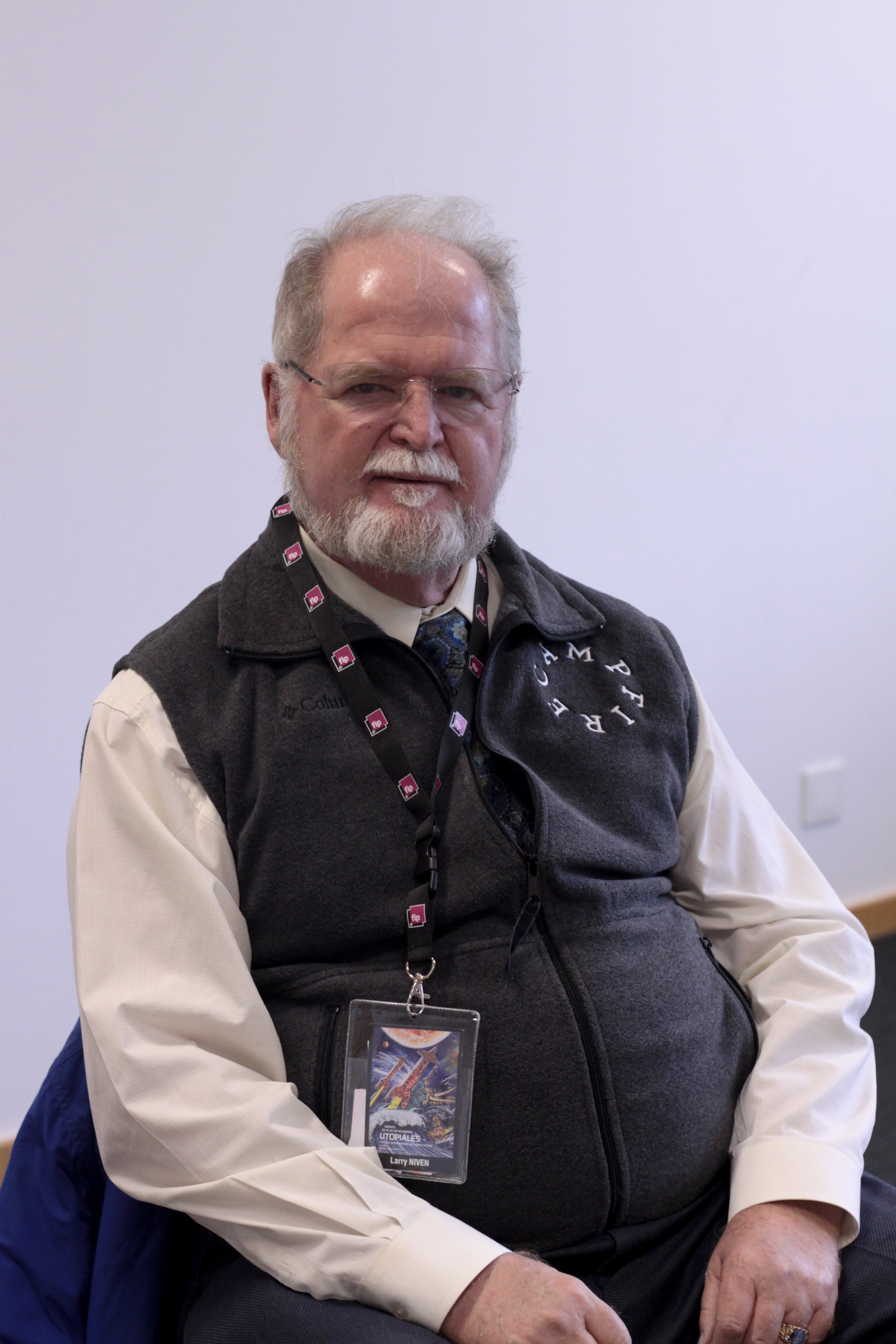 Author Larry Niven at Utopiales 2010 (France).